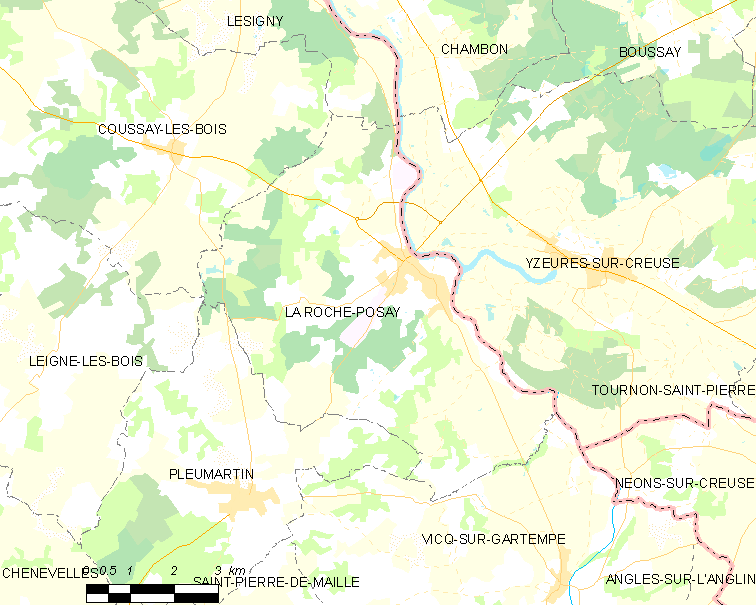 Map of French municipality La Roche-Posay